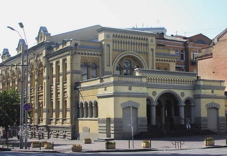 Brodsky Synagogue in Kiev, Ukraine. Picture from Ukrainian Wikipedia (here).